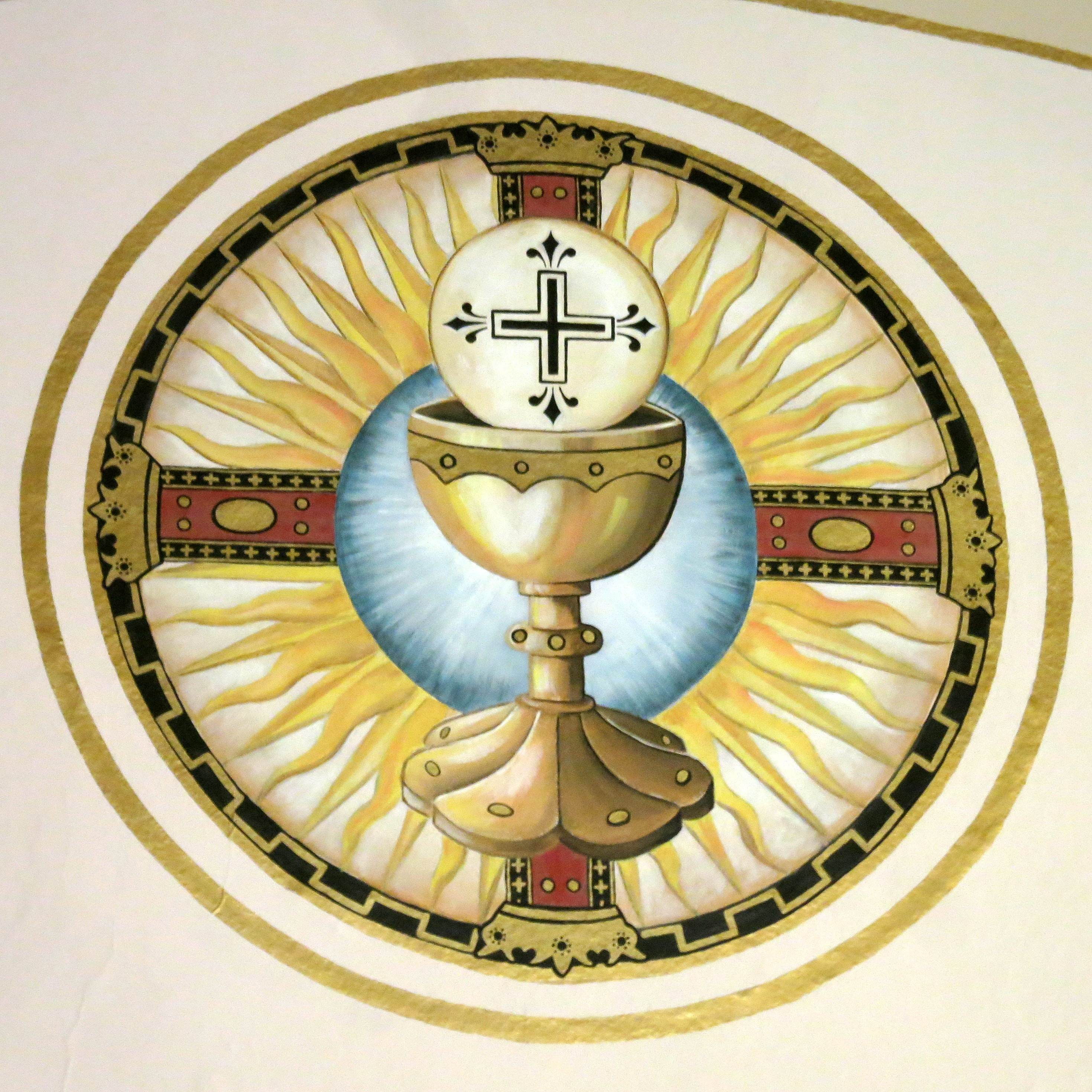 Saint Remy Catholic Church (Russia, Ohio) - fresco, Eucharistic chalice and host